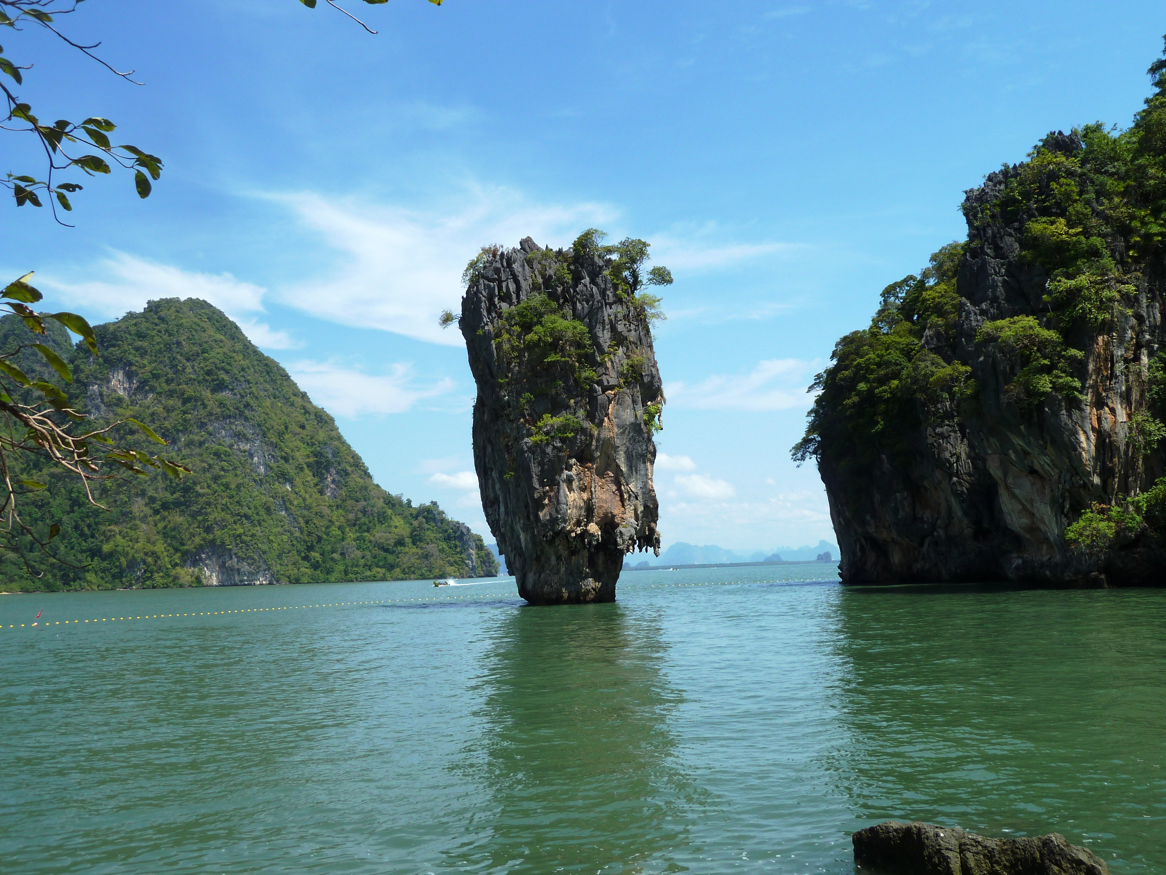 Khao Ta-Pu - James Bond Island, Phang Nga Bay, Thailand